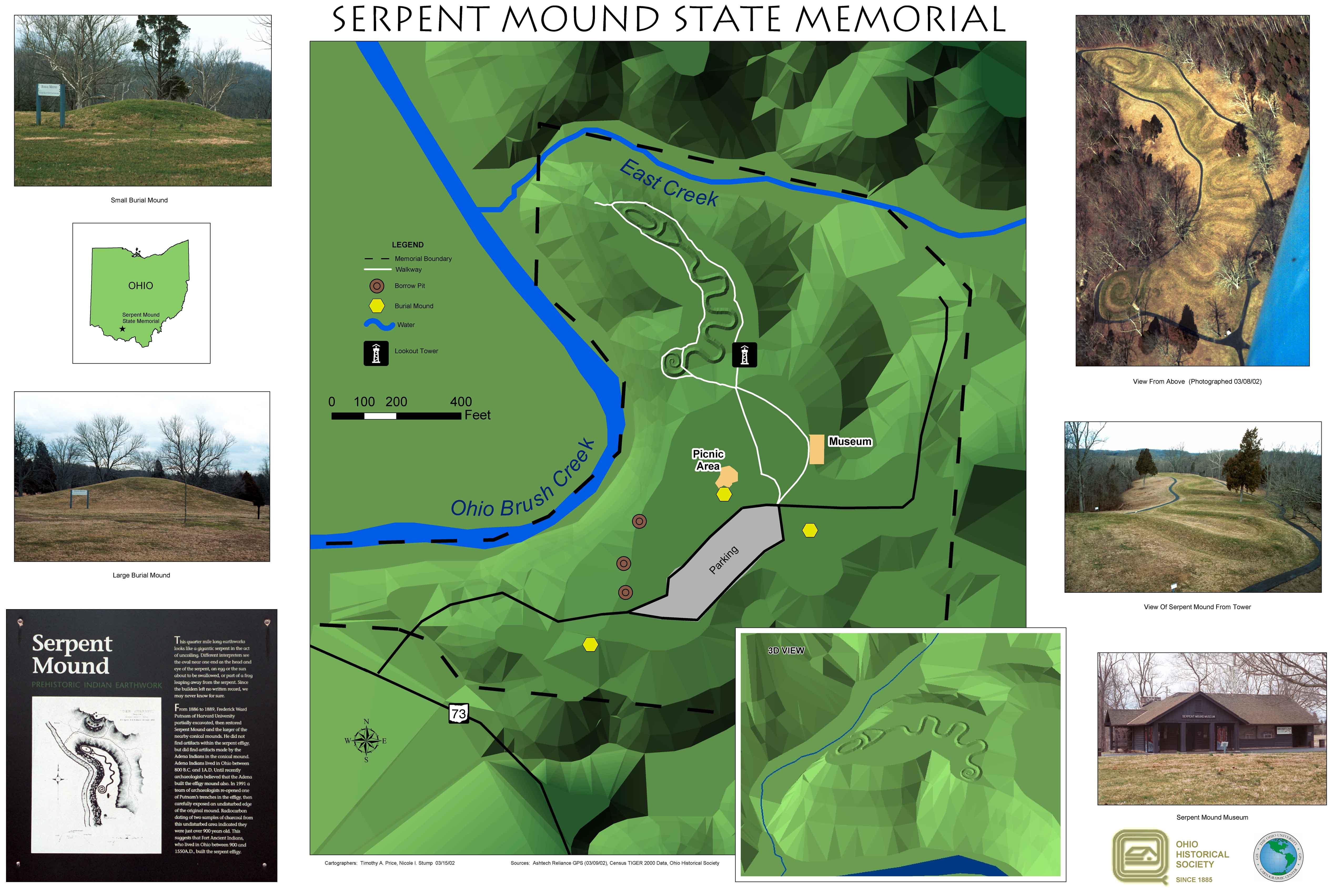 A digital GIS map of Ohio's Great Serpent Mound, created by Timothy A. Price and Nichole I. Stump in March of 2002. Uploaded by the author.